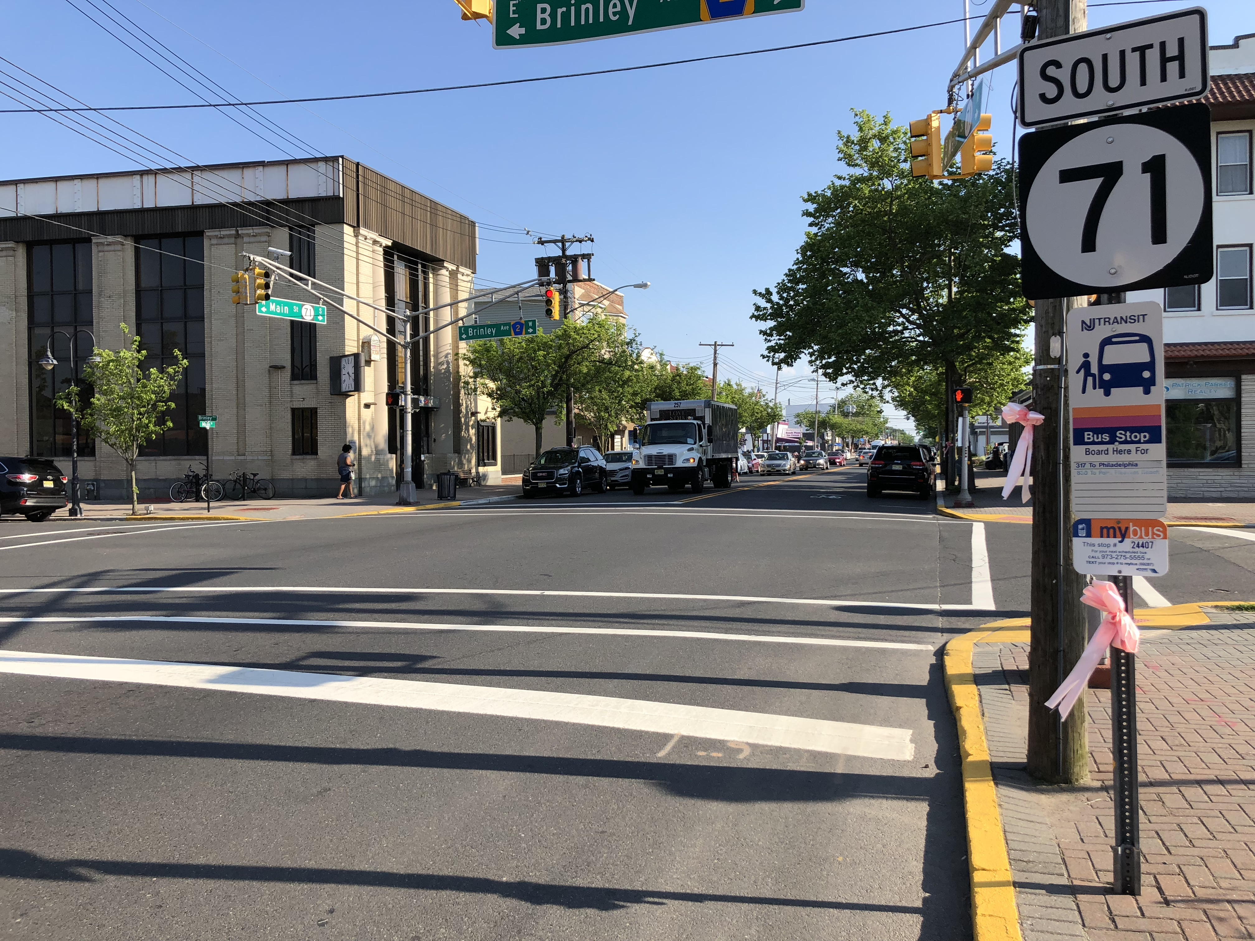 View south along New Jersey State Route 71 (Main Street) at Monmouth County Route 2 (Brinley Avenue) in Bradley Beach, Monmouth County, New Jersey